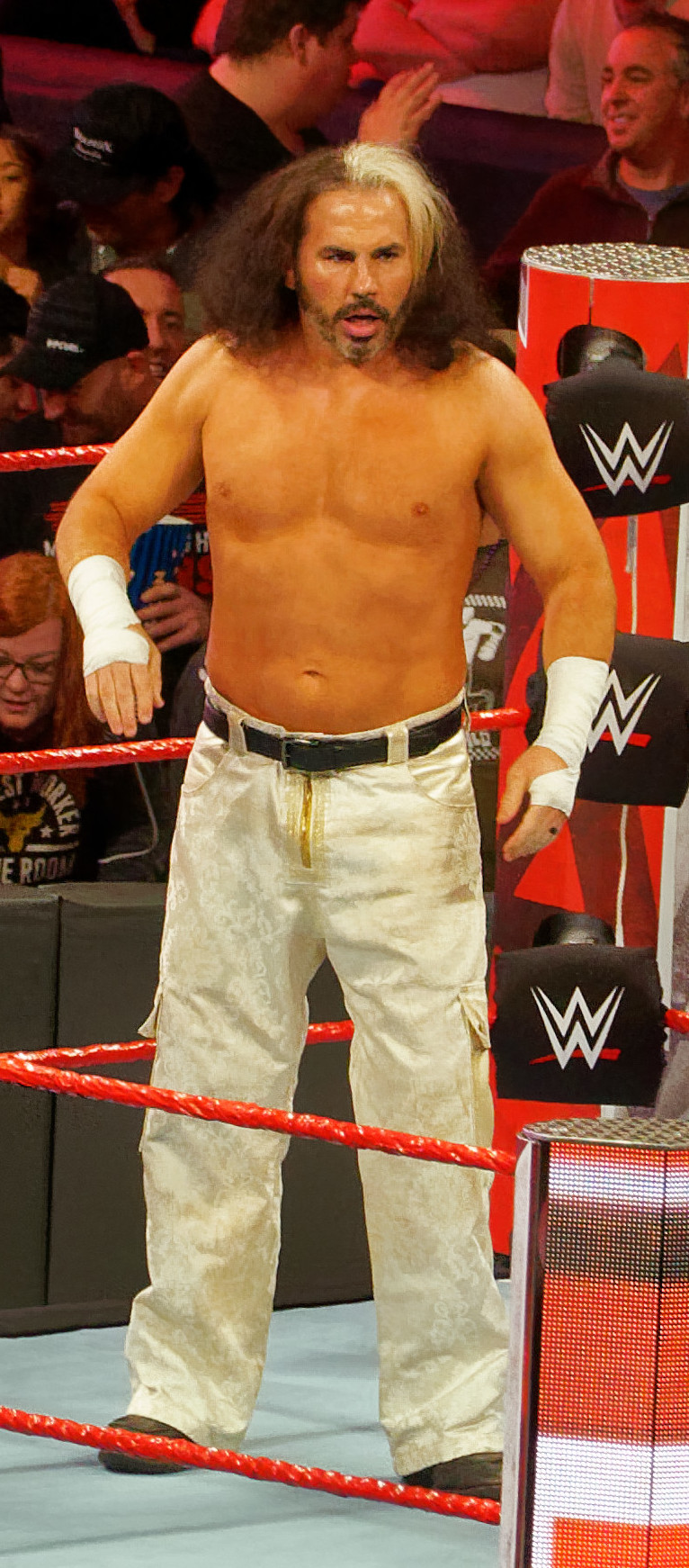 An image of wrestlers Matt Hardy, Bray Wyatt, Titus O'Neil and Apollo Crews on an episode of WWE’s Monday Night Raw that took place on April 9, 2018.